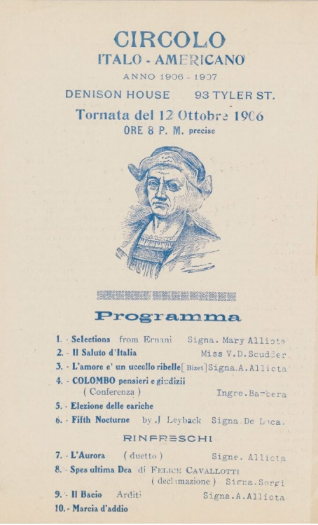 Program of the Circolo Italo-Americano, Denison House, Boston, Massachusetts, 1906-1907